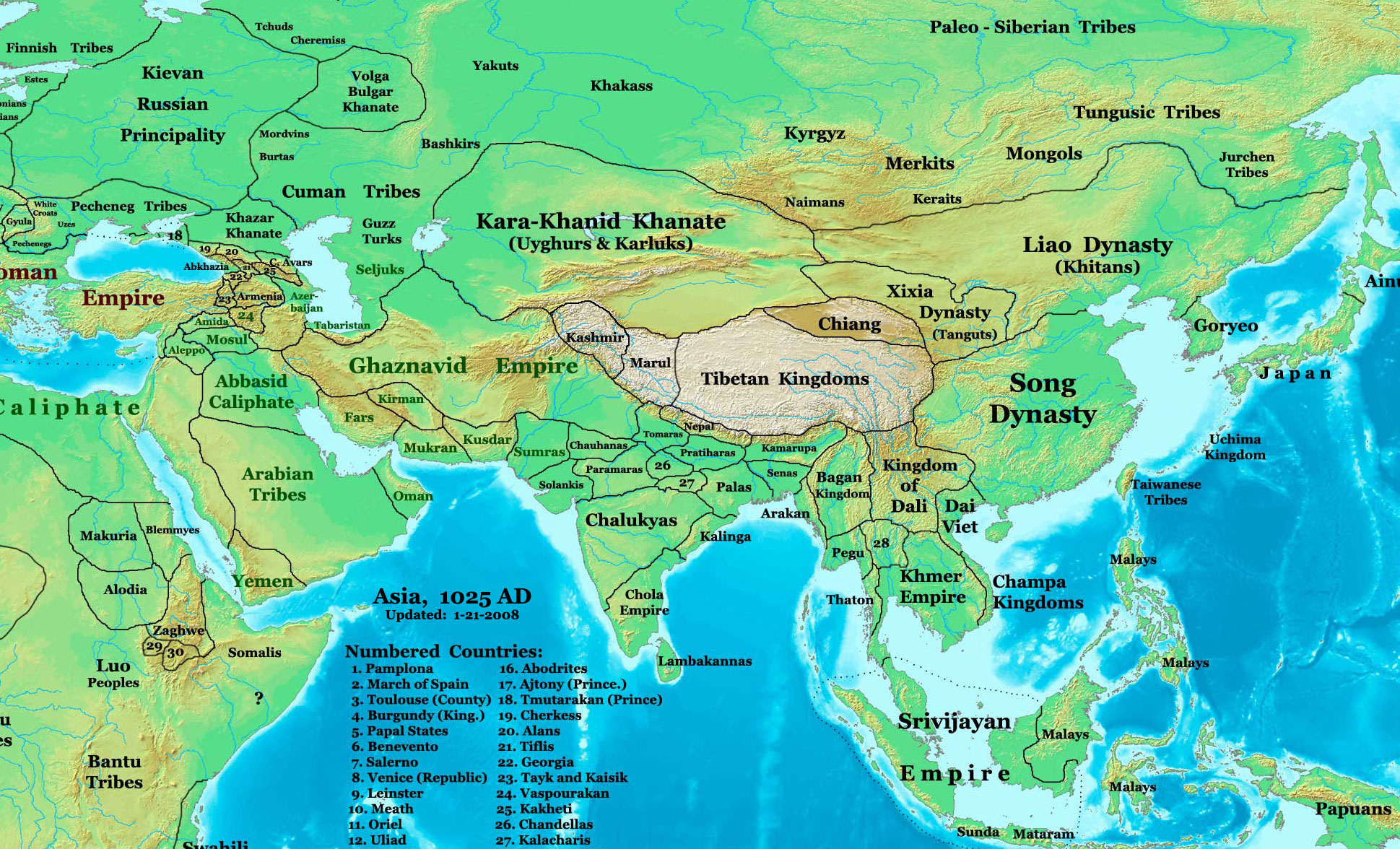 Asia in 1025